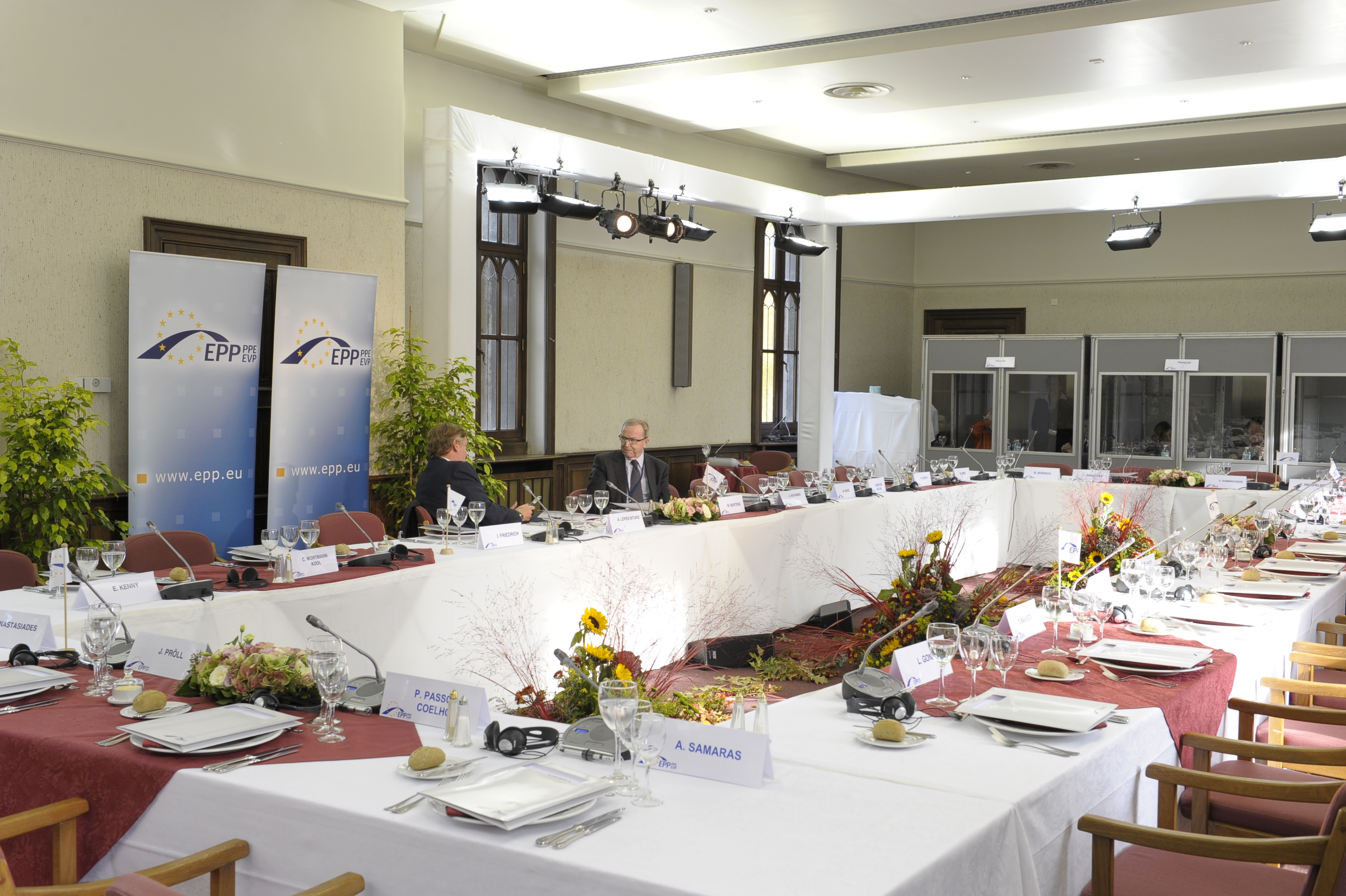 EPP Summit October 2010